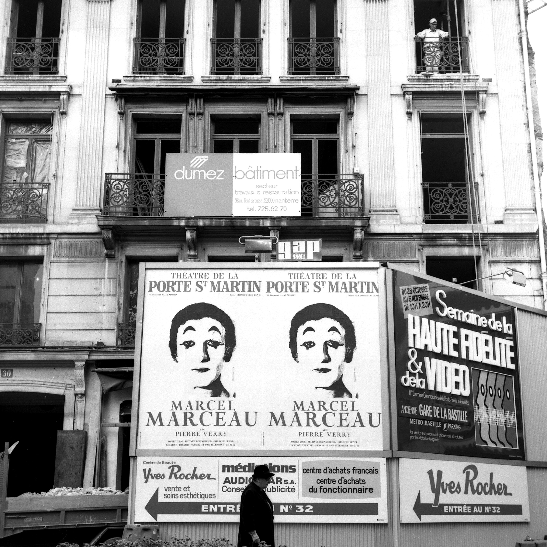 Poster of Marcel Marceau at Paris, France